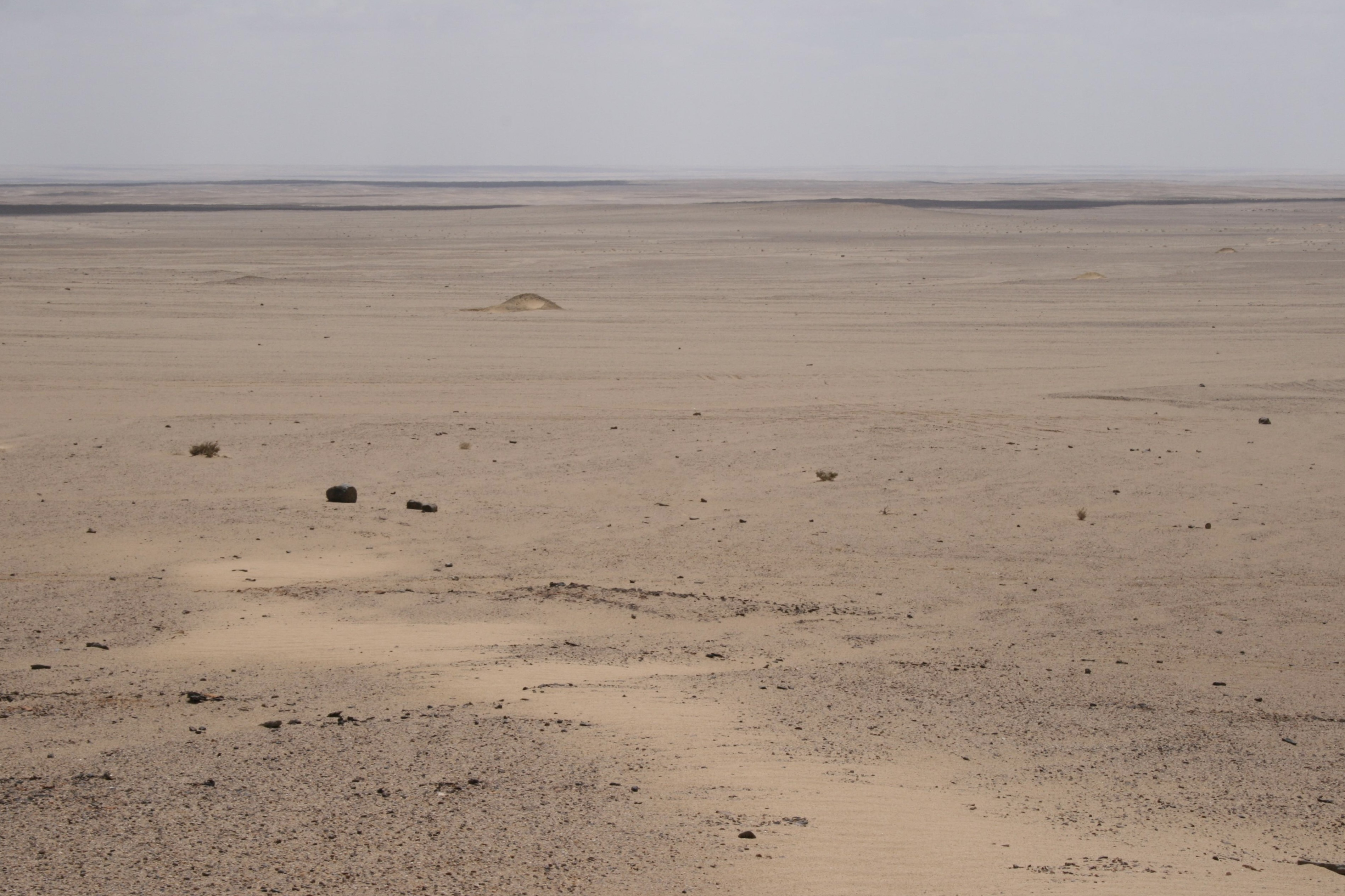 A View of the Qattara Depression which is almost impassible for motorized vehicles. It played a major role in the 2 battles at El-Alamein in Egypt during World War Two.